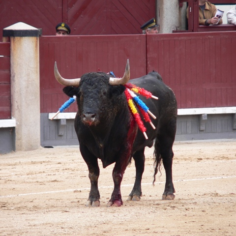 Bull with banderillas, Plaza de Toros Las Ventas, Madrid, Spain.